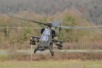 Italian Army AgustaWestland AW129